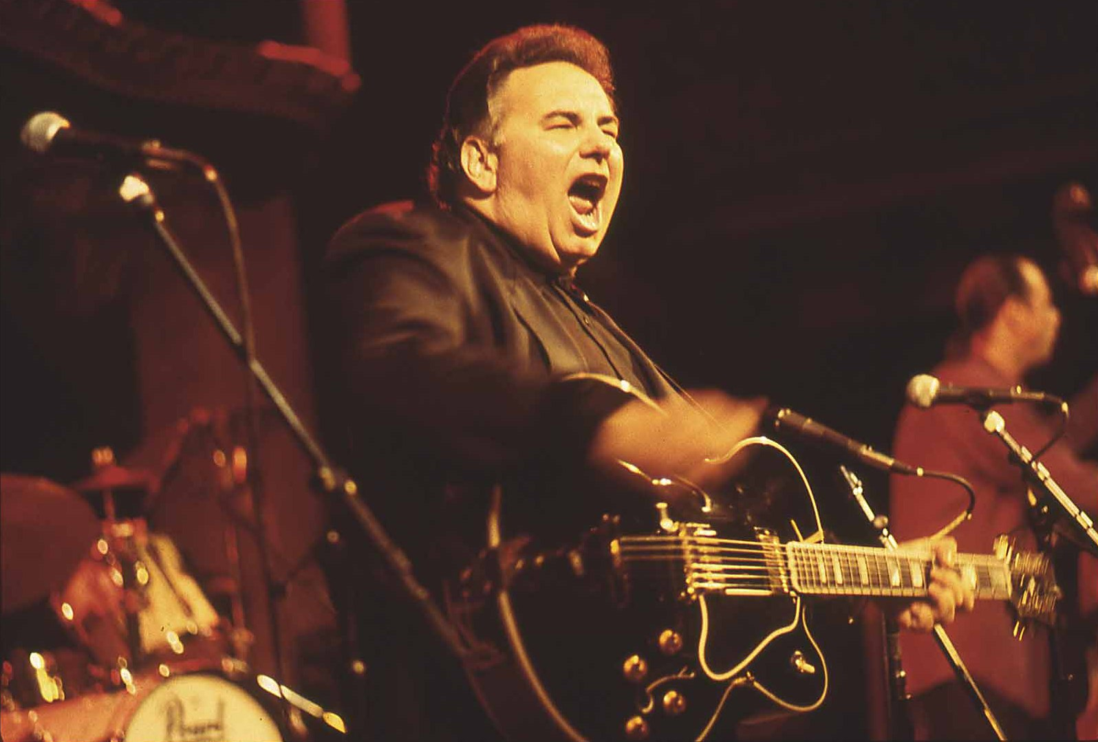 Robillard rocking in 2006